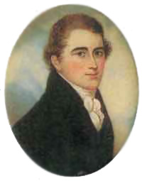 Anonymous portrait. c.1835 of Daniel Florencio O'Leary